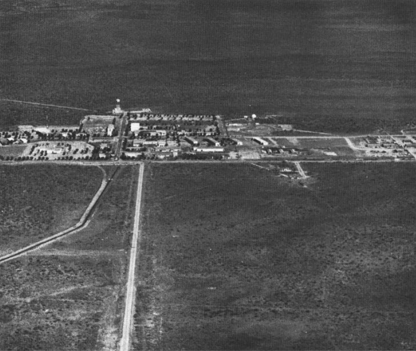 View of the U.S. Naval Communication Station "Harold E. Holt" in Exmouth, Western Australia, circa 1979.